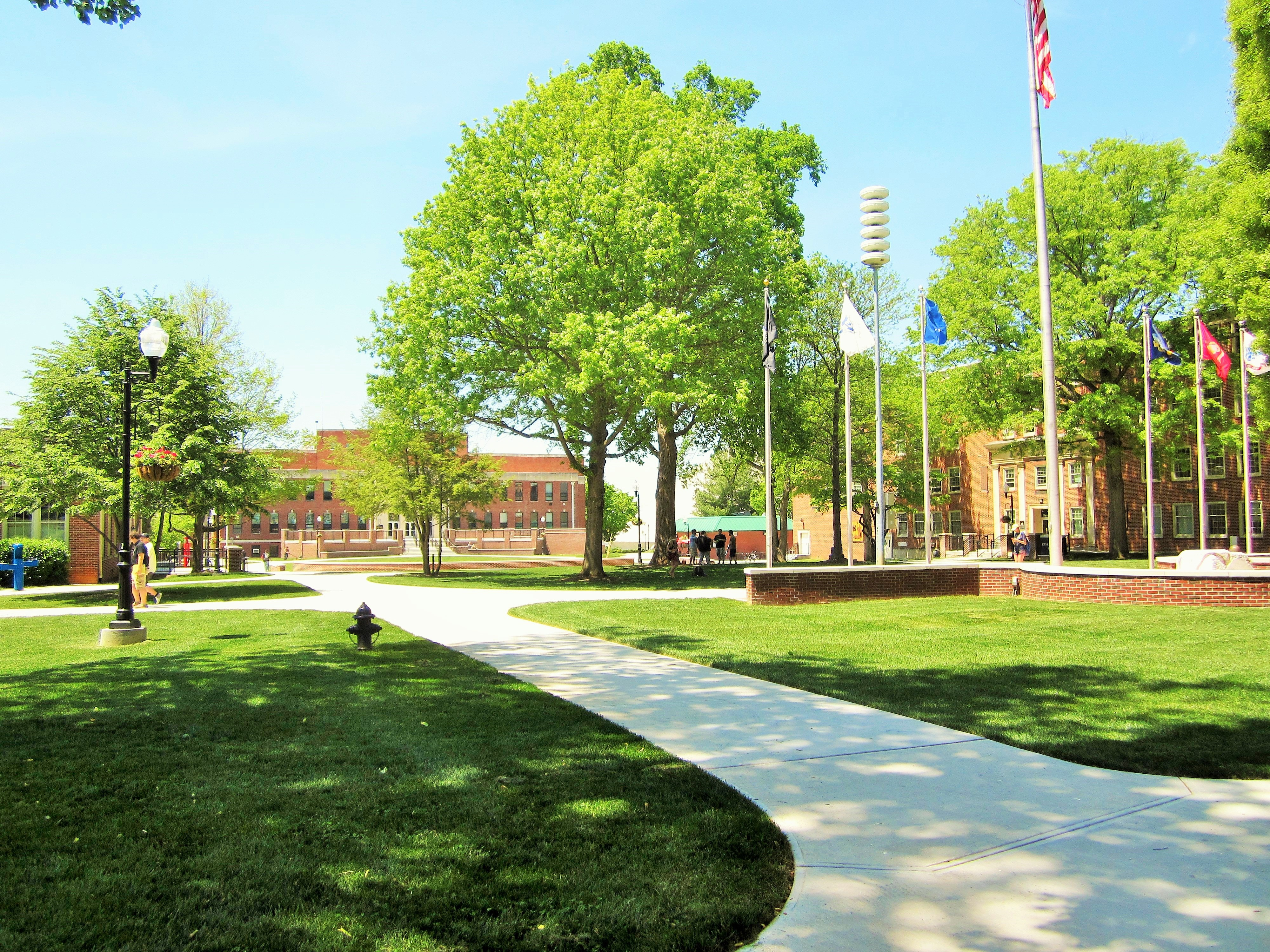 ETSU Campus Quad